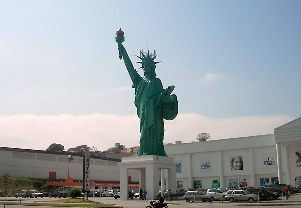 New York em Florianópolis ???